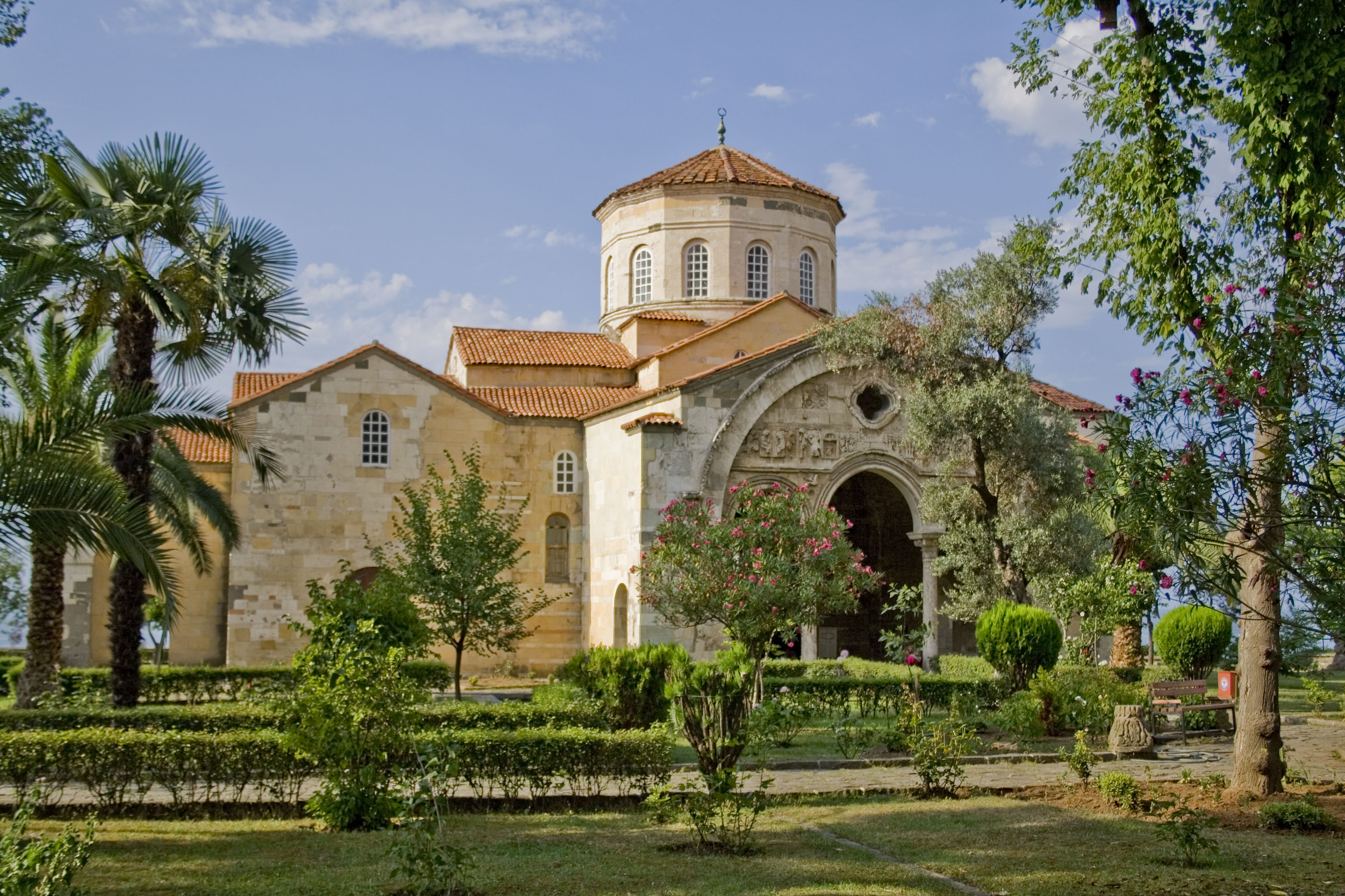 Photograph of the restored Hagia Sopia Church in Trabzon, Turkey